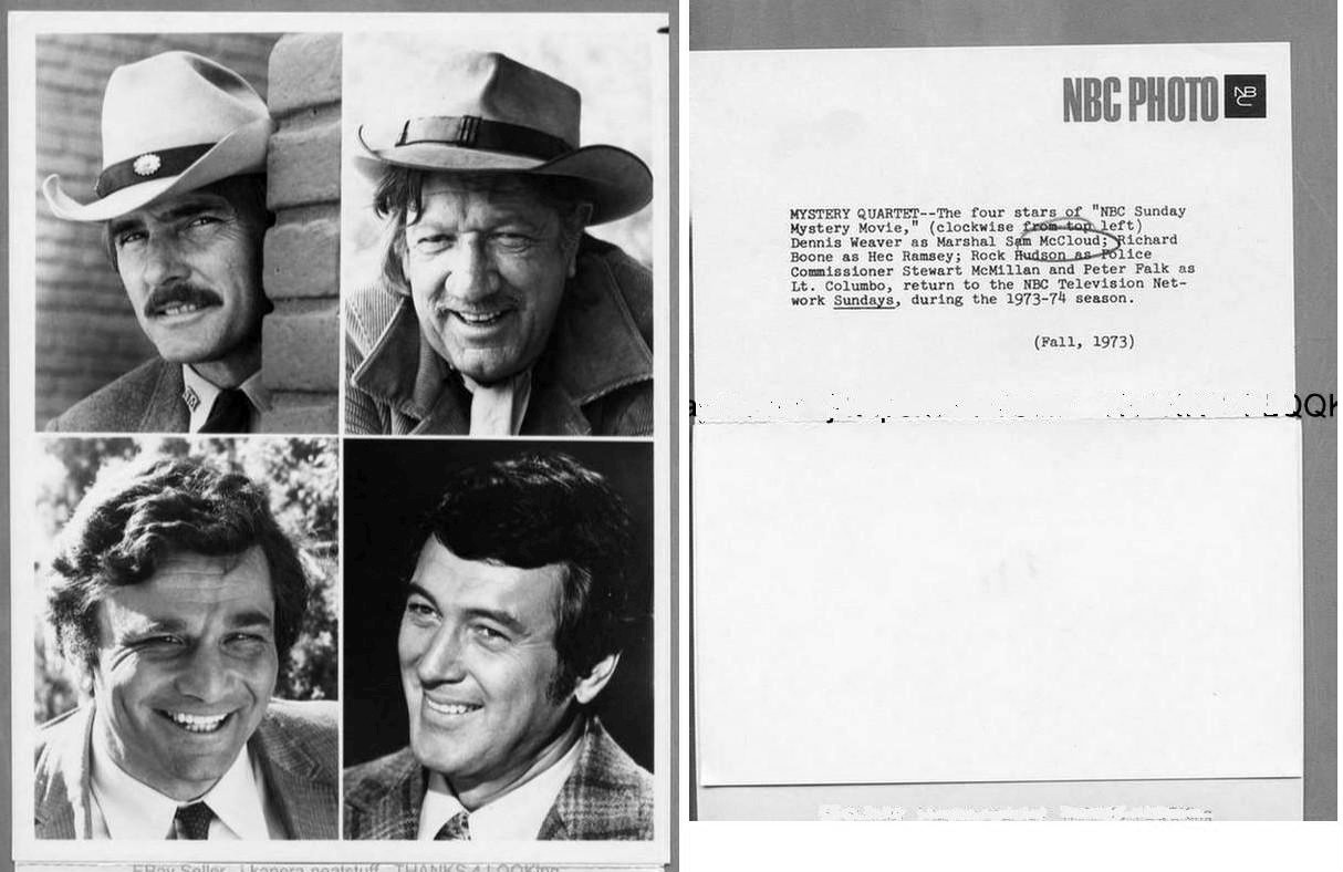 Photo of the stars of NBC Sunday Mystery Movie. Top left — Dennis Weaver in McCloud; top right — Richard Boone in Hec Ramsey; bottom left — Peter Falk in Columbo; bottom right — Rock Hudson in McMillan and Wife. The program worked on a rotating basis, one show per month from each.